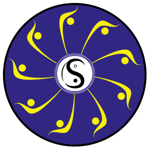 is the logo of the jujitsu SHINSEN sport team